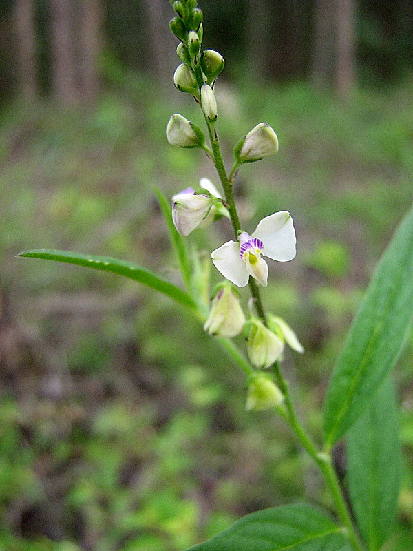 Asemeia ovata (Poir.) J.F.B.Pastore & J.R.Abbott, Polygalaceae, Atlantic forest, northeastern Bahia, Brazil Popovkin 43, 53 (HUEFS).